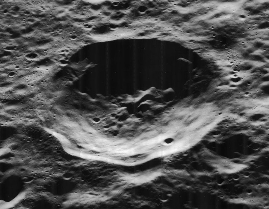 Oblique view of Nikolaev crater, on the far side of the moon, facing west.